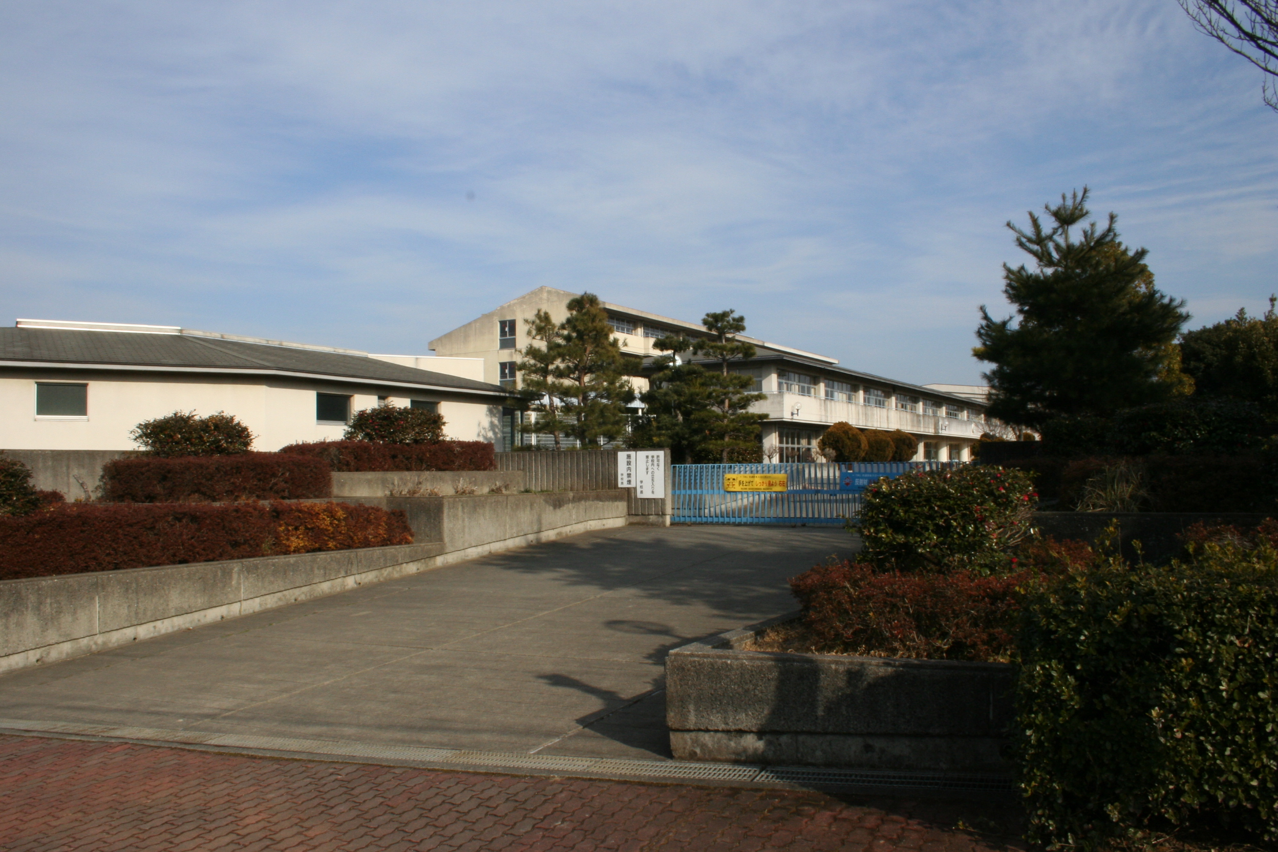 Hakusan Junior High School, Higashimatsuyama-shi, Saitama, Japan